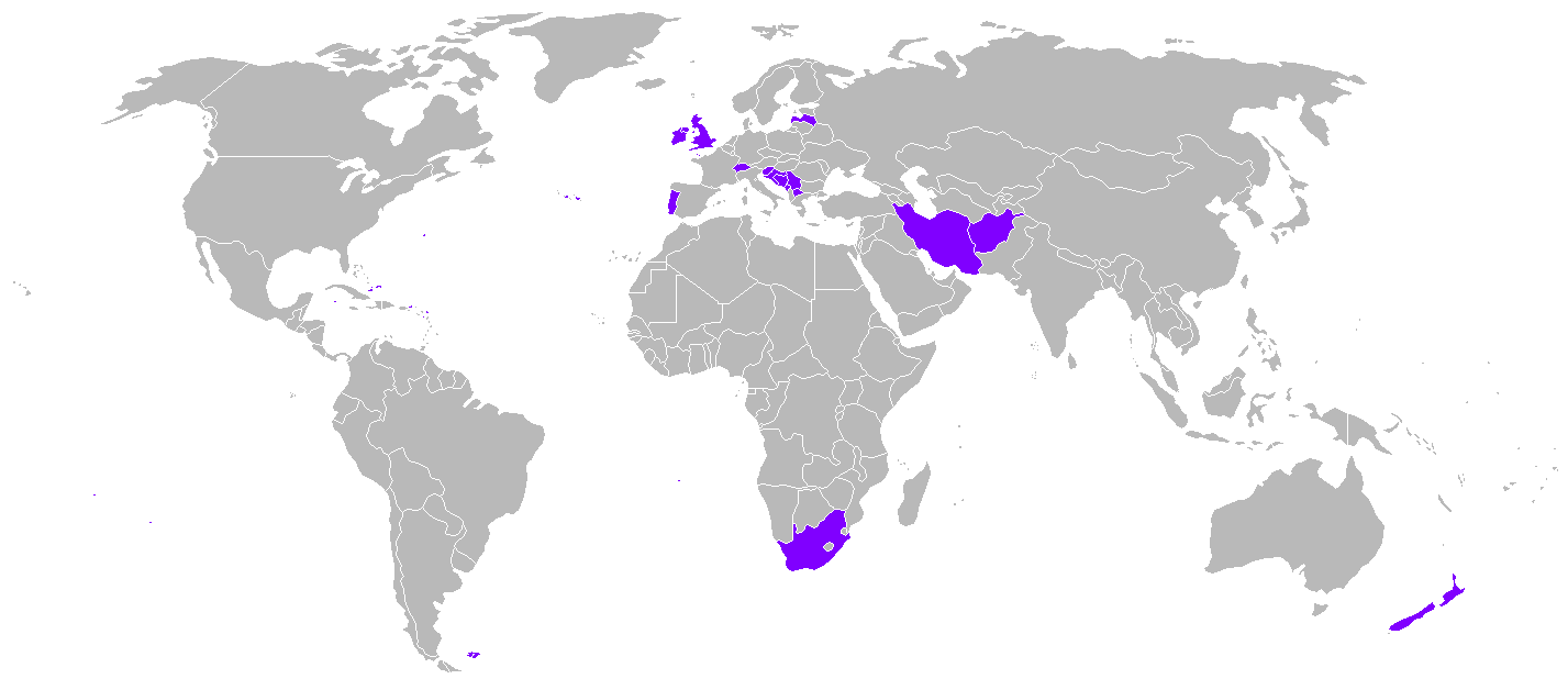 World map of Hawker Hind operators